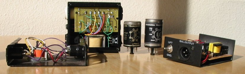 Five audio transformers for various line level purposes. The two on the left are 1:1 transformers for splitting signals, balancing unbalanced signals, or isolating two different AC ground systems. The two cylindrical transformers fit into octal sockets; one is a line transformer working at 600 ohms, the second is a bridging transformer working at 15,000 ohms. On the far right is a direct injection box; the yellow transformer changes a high impedance input to a low impedance output.